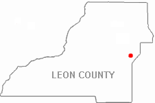 Locator map for Chaires, Florida (in Leon County)